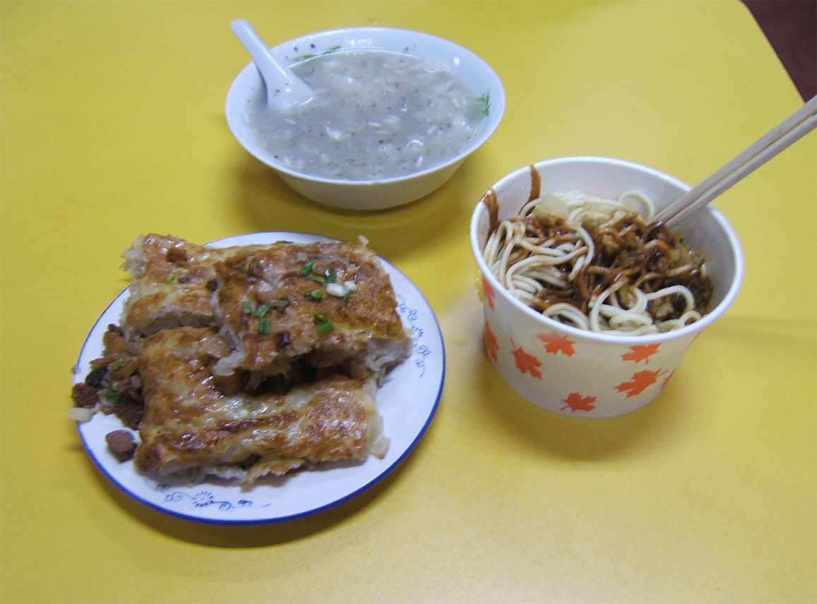 Foods of Wuhan: dou pi ("tofu skin", bottom left), re gan mian ("hot and dry noodles", bottom right), and guihua humi jiu (a type of porridge)